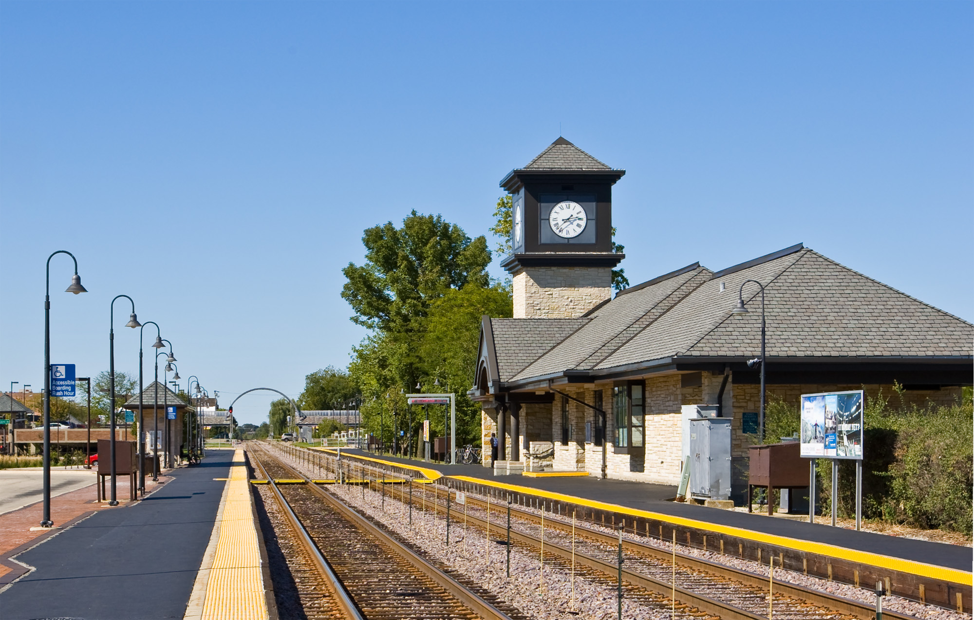 Highland Park Metra Station on the Union Pacific North Line, Highland Park, Illinois